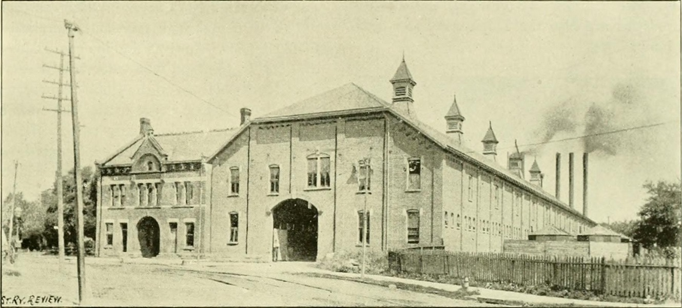 Power house of the Broadway and Newburg Street Railway, located at the intersection of Broadway Avenue and Aetna Road in Cleveland, Ohio, in the United States.